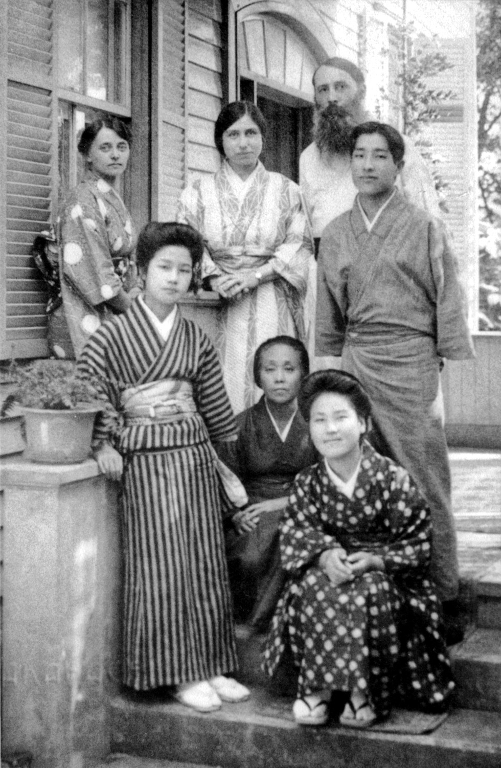 Dutta, Mirra Alfassa, Paul Richard & Japanese friends in Tokyo c.a 1918